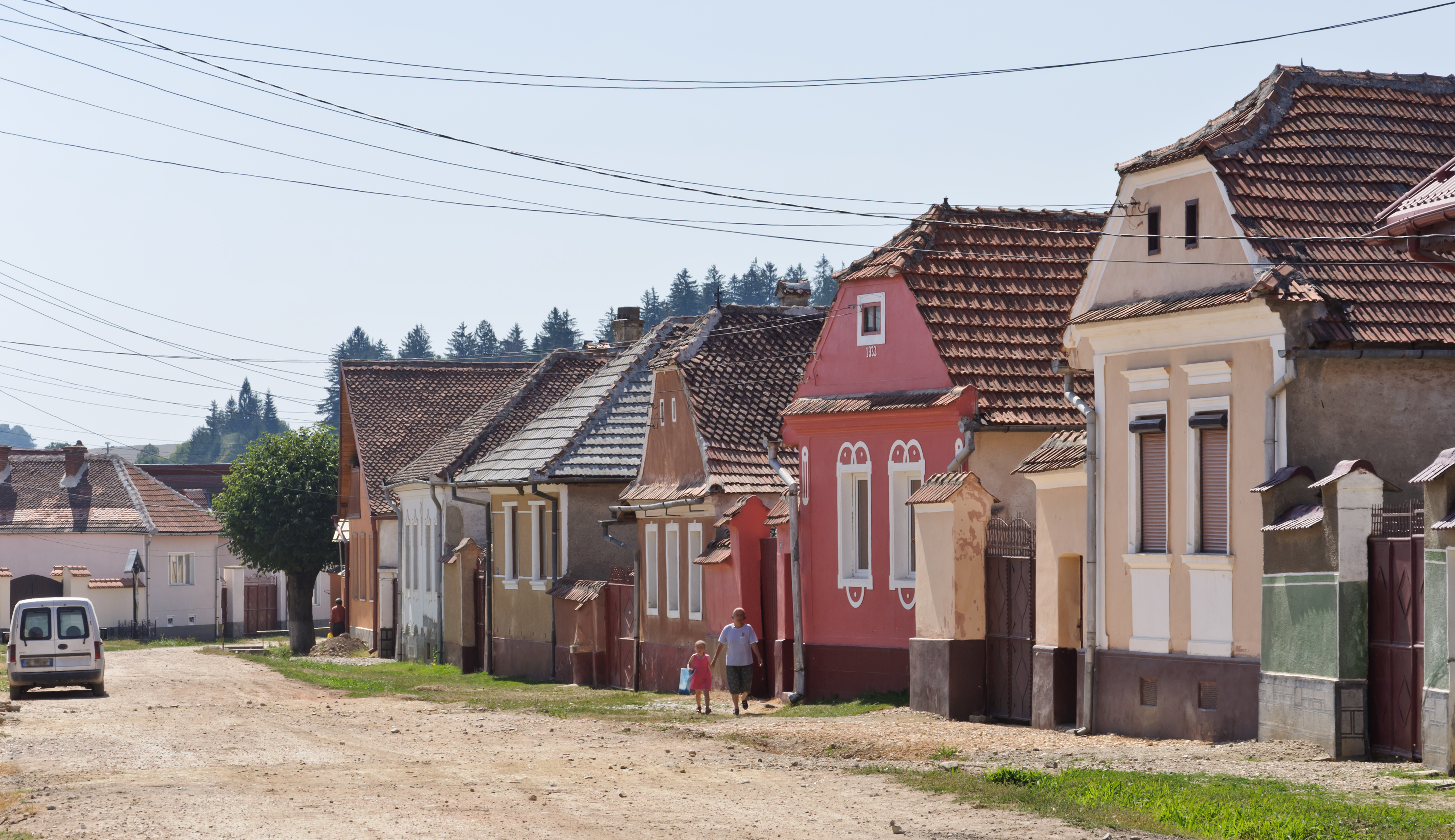 A street in Vlădeni, in Braşov County (Transylvania, Romania)